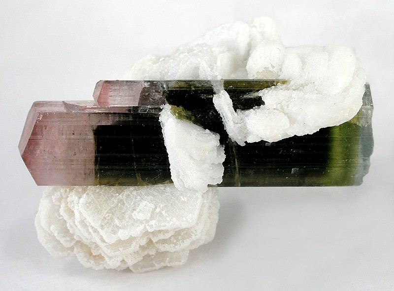 Elbaite, Albite Locality: Stak Nala, Haramosh Mts., Skardu District, Baltistan, Northern Areas, Pakistan (Locality at ) Size: 62 mm x 39 mm x 38 mm. A classic of the late 1980s, now rare on the market! This combination of pink pinacoid and green basal terminations, both gemmy, on a dark core, is totally distinct. Almost all were found as floaters with these thin blades of Albite, making for a very aesthetic combination. Hard to find good ones on the market, today.